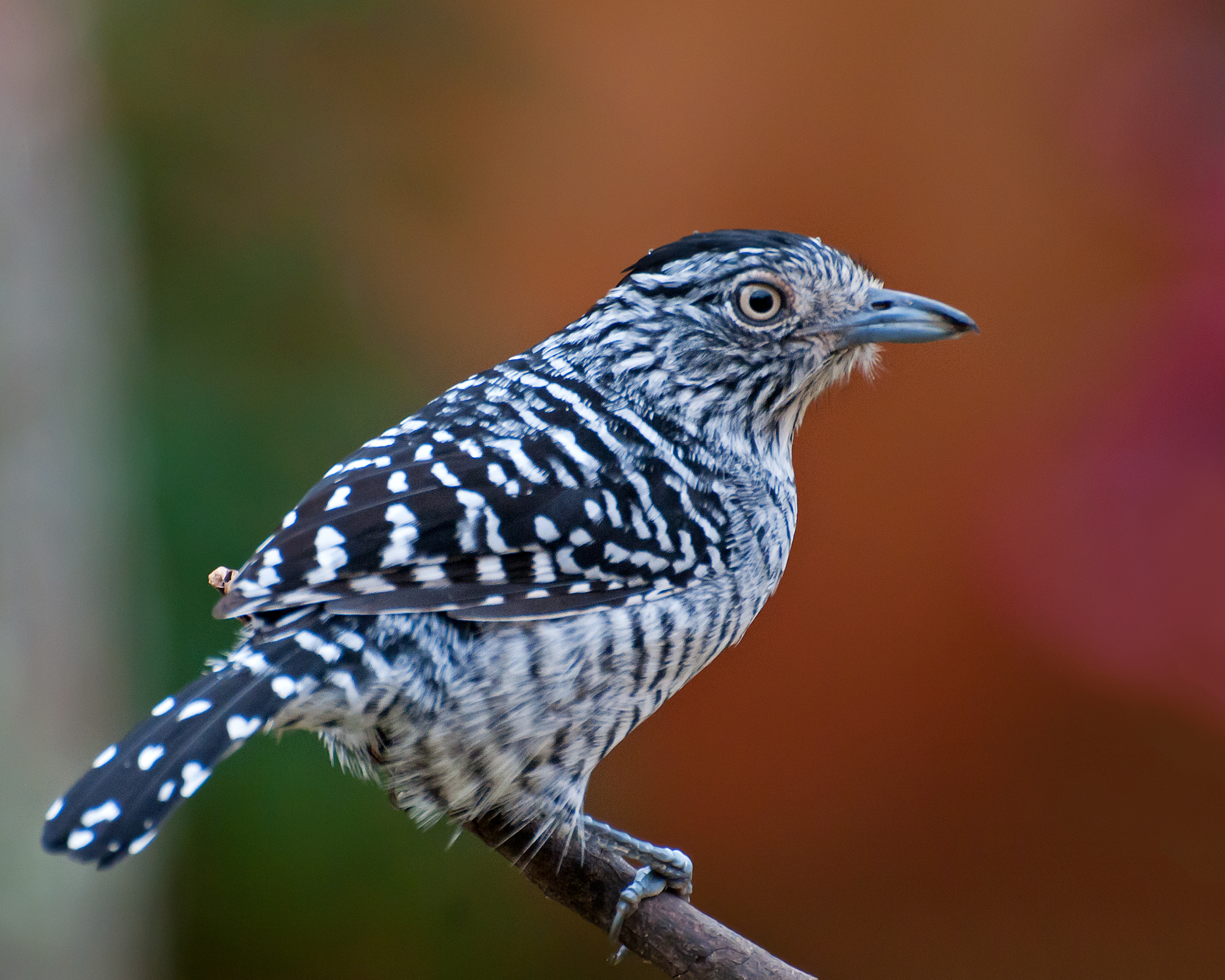 A male Barred Antshrike in Piraju, São Paulo, Brazil.